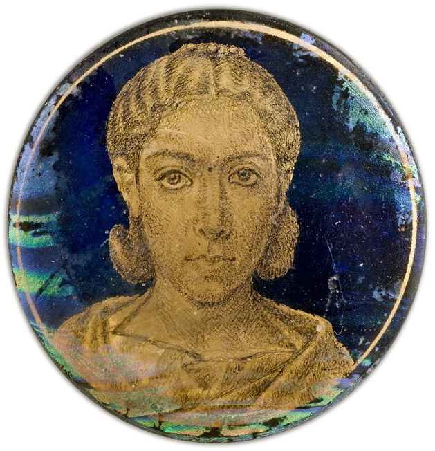 Gold-glass portrait of a woman